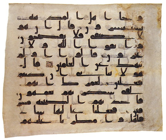 The ‘Uthman Qur'an is housed in Tashkent in Uzbekistan. This manuscript is also known as the Samarqand manuscript and the Tashkent (Samarqand) Qur'an. Script: Kufic. Part of Sura XV